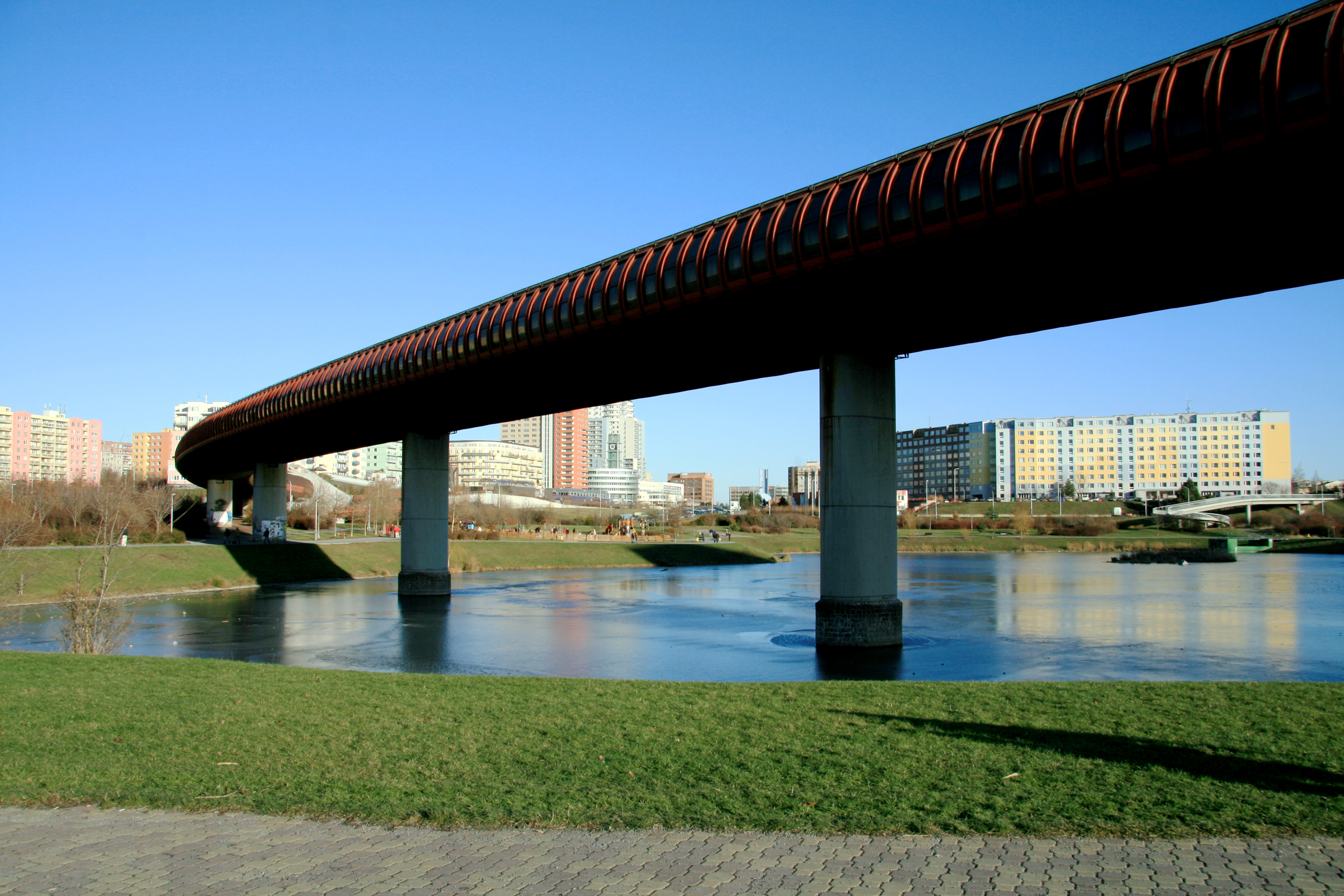 Bridge for Prague Metro line B over 2. reservoir on Prokopský potok in Stodůlky, Prague, Czech Republic